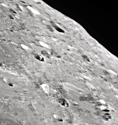 Strabo lunar crater as seen from Earth with satellite craters labeled